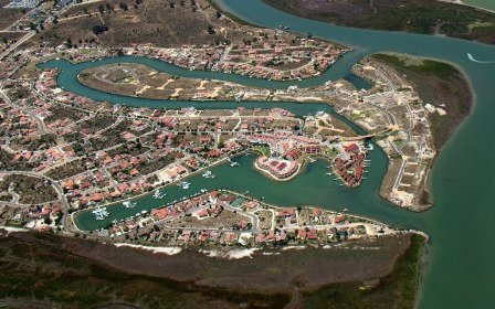 An aerial view of Admiral Island.